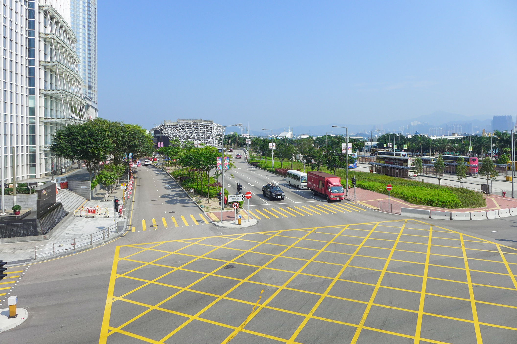 Finance Street in Central HK